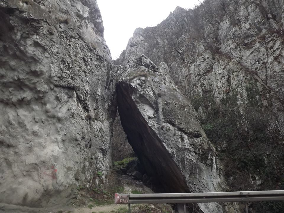 Sićevo Gorge, Gradištanski kanjon